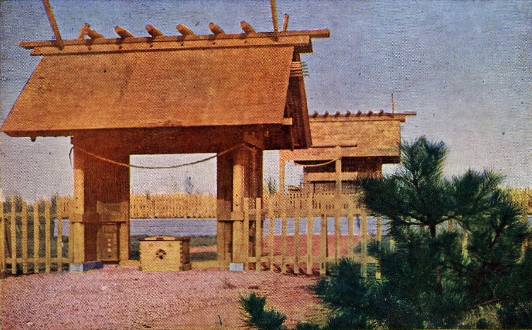 Houten Jinja(Mukden Shrine) old hall